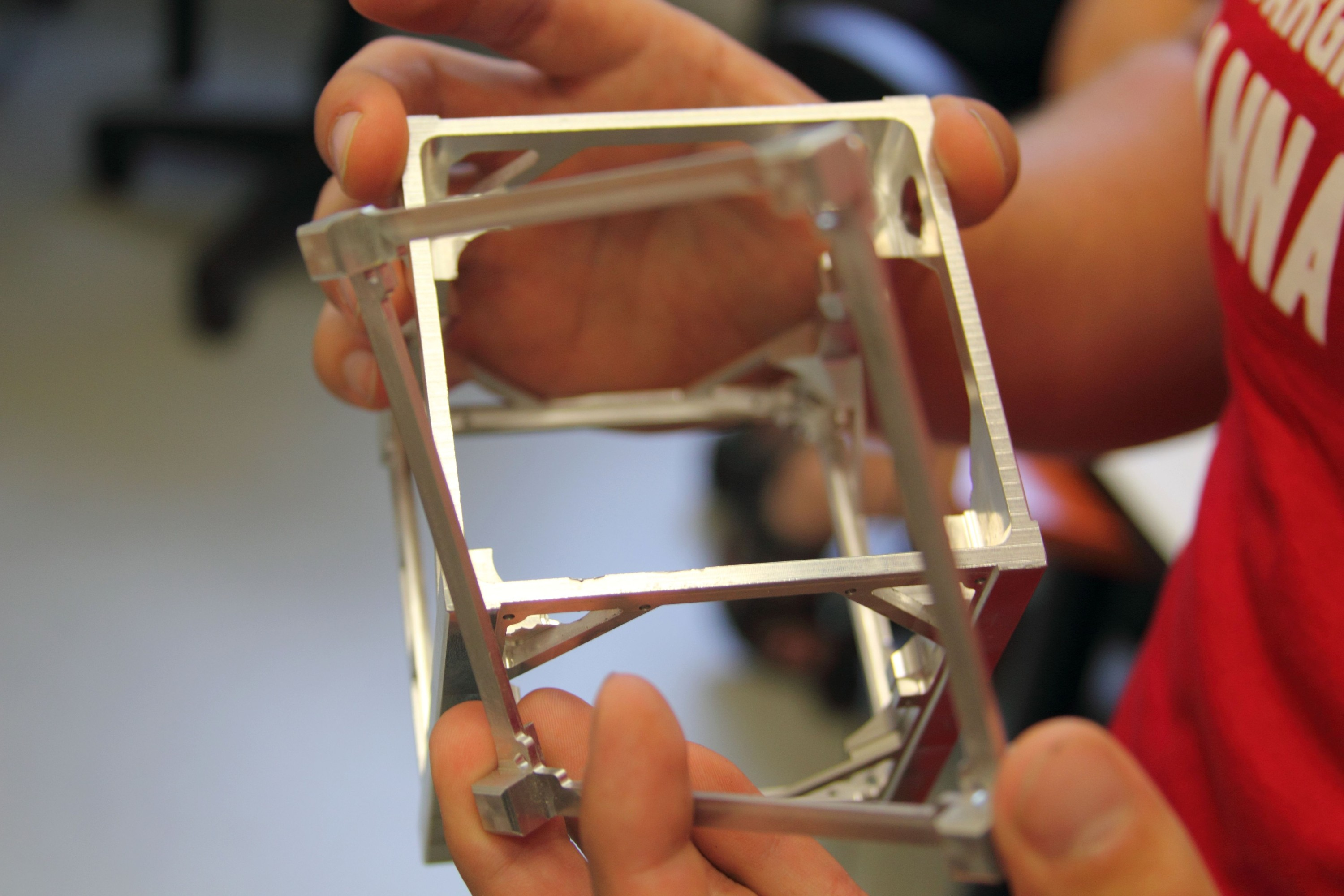 Prototype of structure frame for the satellite.